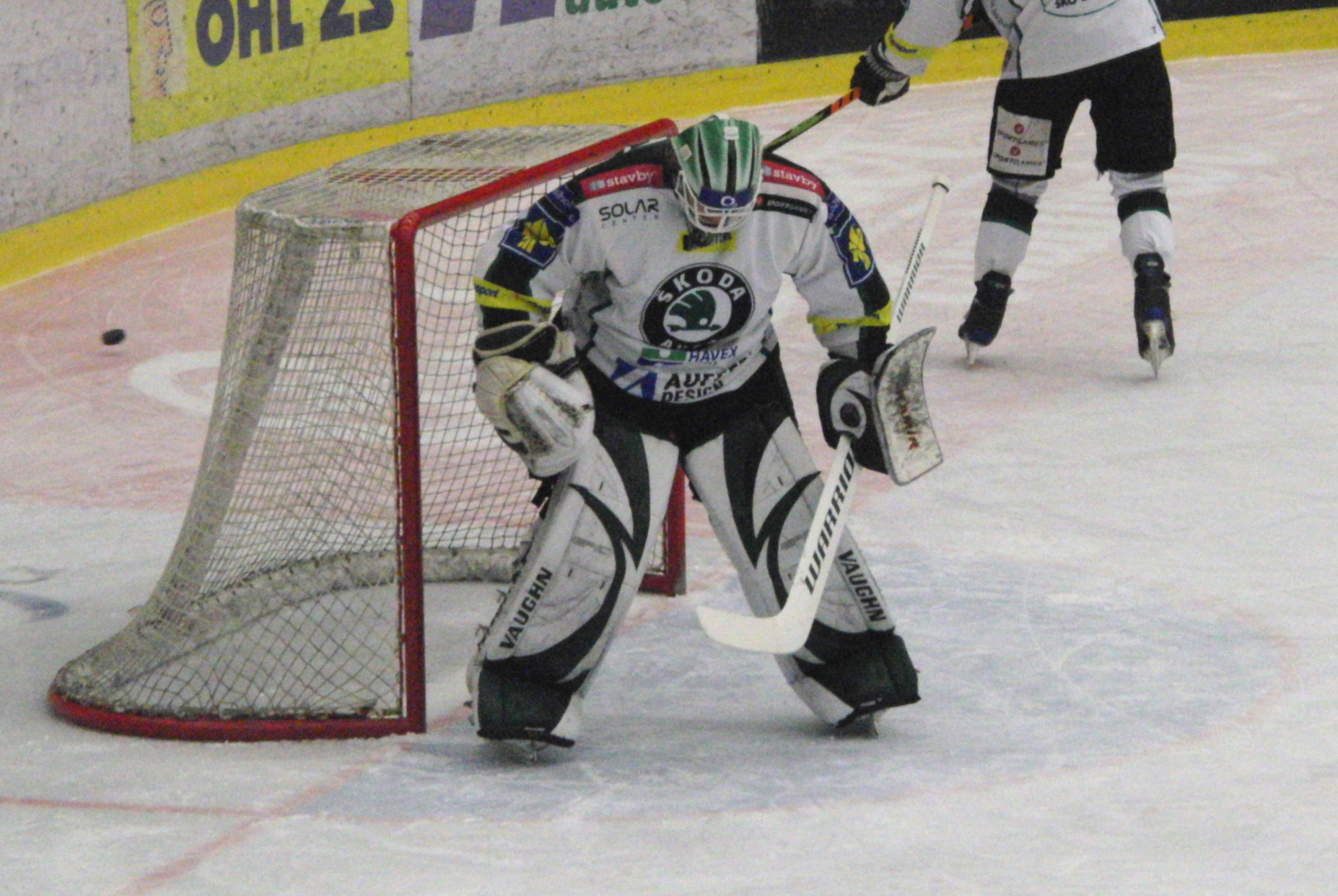 Marek Schwarz Česky: Marek Schwarz